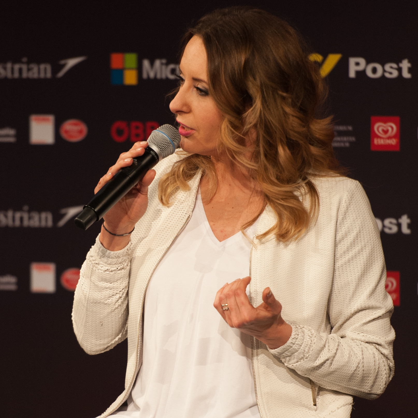 Eurovision Song Contest Vienna 2015: Monika Kuszyńska